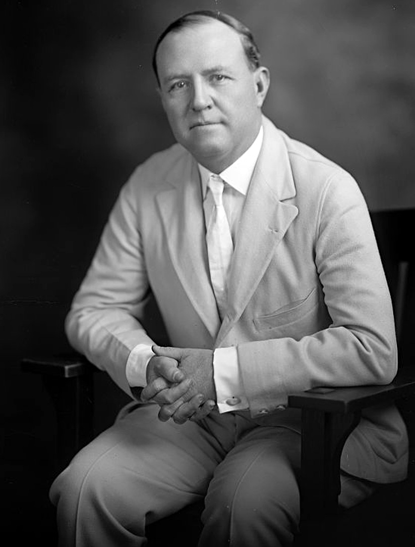 James Collier, US Representative from Mississippi